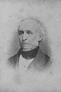 This portrait of John Eatton LeConte (1784-1860) was made around the year of his death.